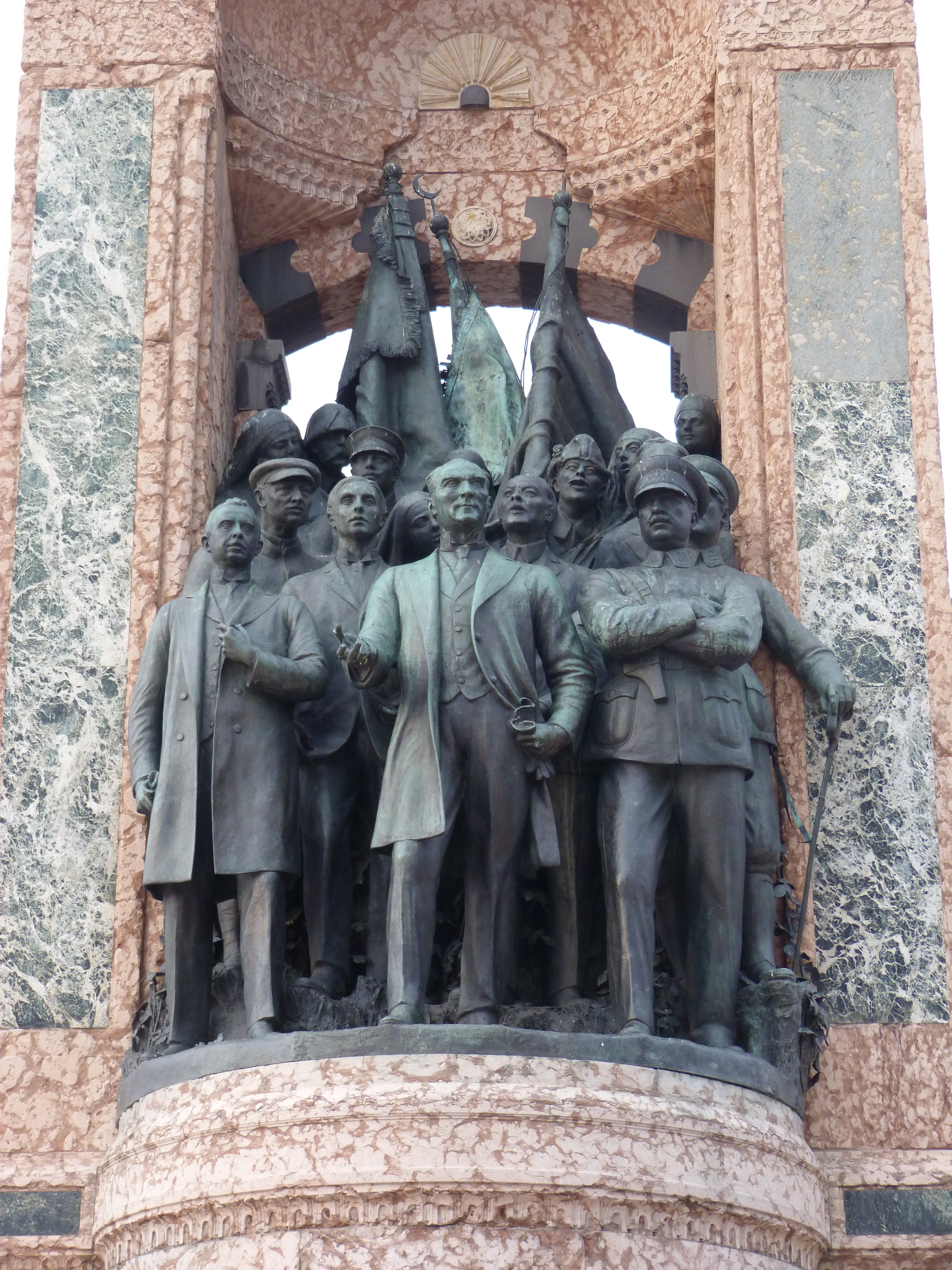 Live on the 23rd of october, 2014. Taksim square, the heart of modern Istanbul. (Taksim Meydani). At night. Monument of the Republic. (Mustafa Kemal Ataturk, Mikhail Frunze, Kliment Voroshilov) Republic of Turkey was proclaimed on the 29th of october, 1923 in Ankara, ©© Derzsi Elekes Andor, Budapest, 2014, Published in the Metapolisz DVD line. You are authorised to use this photo under Creative Commons – even for commercial, for profit purposes. The photo must be attributed to Derzsi Elekes Andor. All of the photos and vids in the Metapolisz DVD line are under Creative Commons and can be used even for commercial – for profit – purposes. Recommended Citation Derzsi Elekes Andor: Metapolisz DVD line